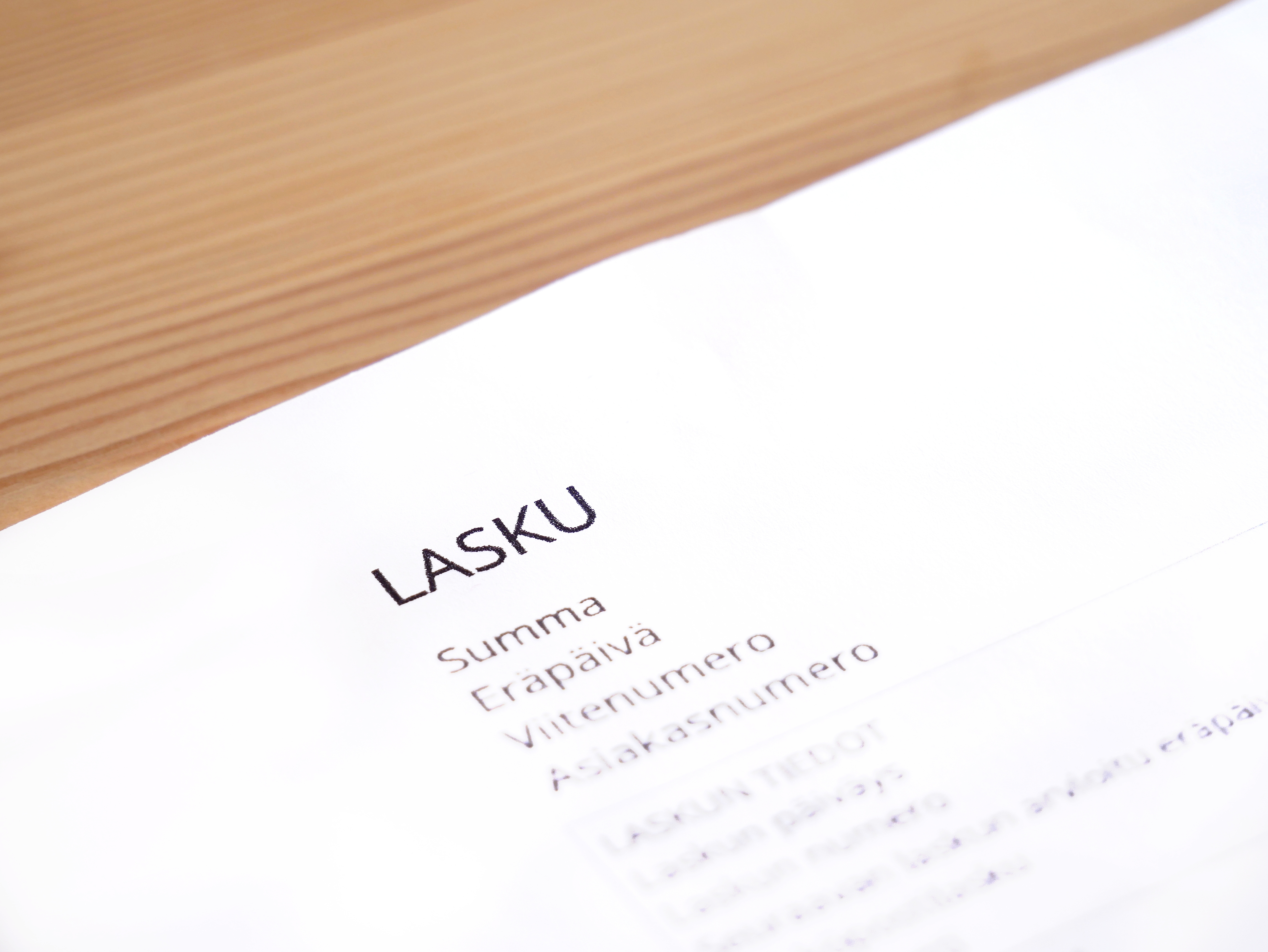 Invoice.